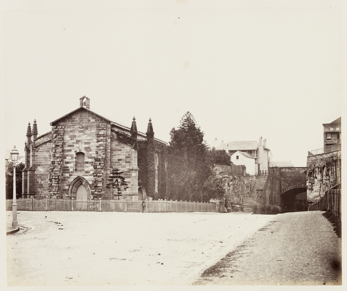 69. Trinity Church SH 718